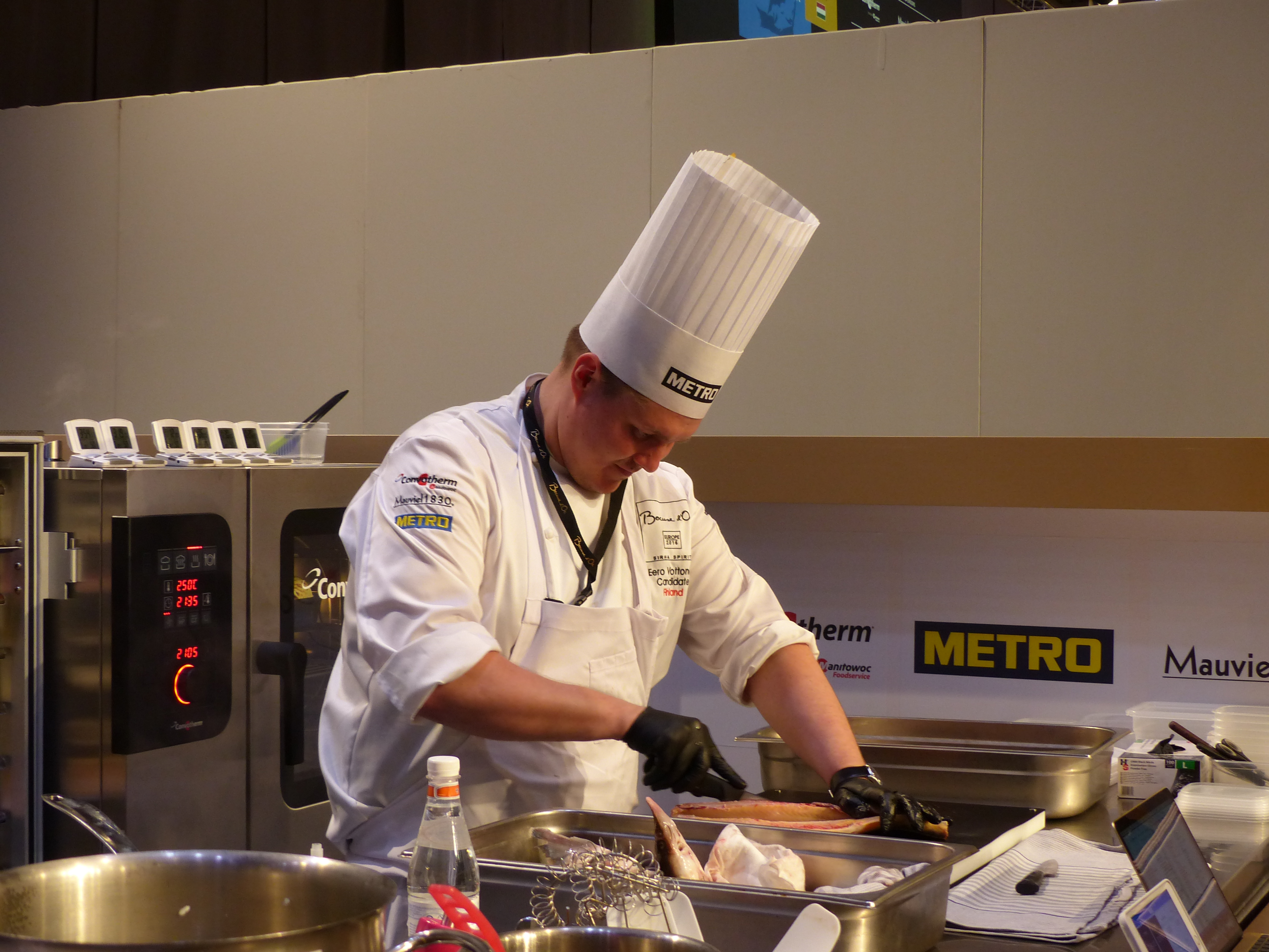 Eero Vottonen. Taken on the 10th of May, 2016. Hungexpo, Budapest, Hungary. Bocuse d'Or – Selection Europe – Budapest. Sources